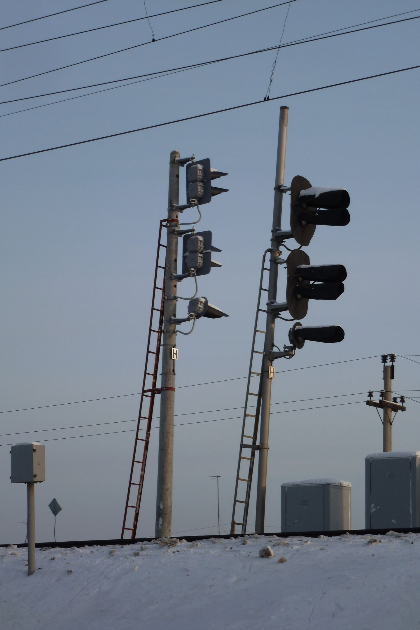 Russian colorlight railway signals of "old" and "new fashion" in the middle of the replacement process. Note the difference in the shape of targets (rounded ones are old style) and hoods. New signal is not in the operation yet so its heads are turned away from the track.